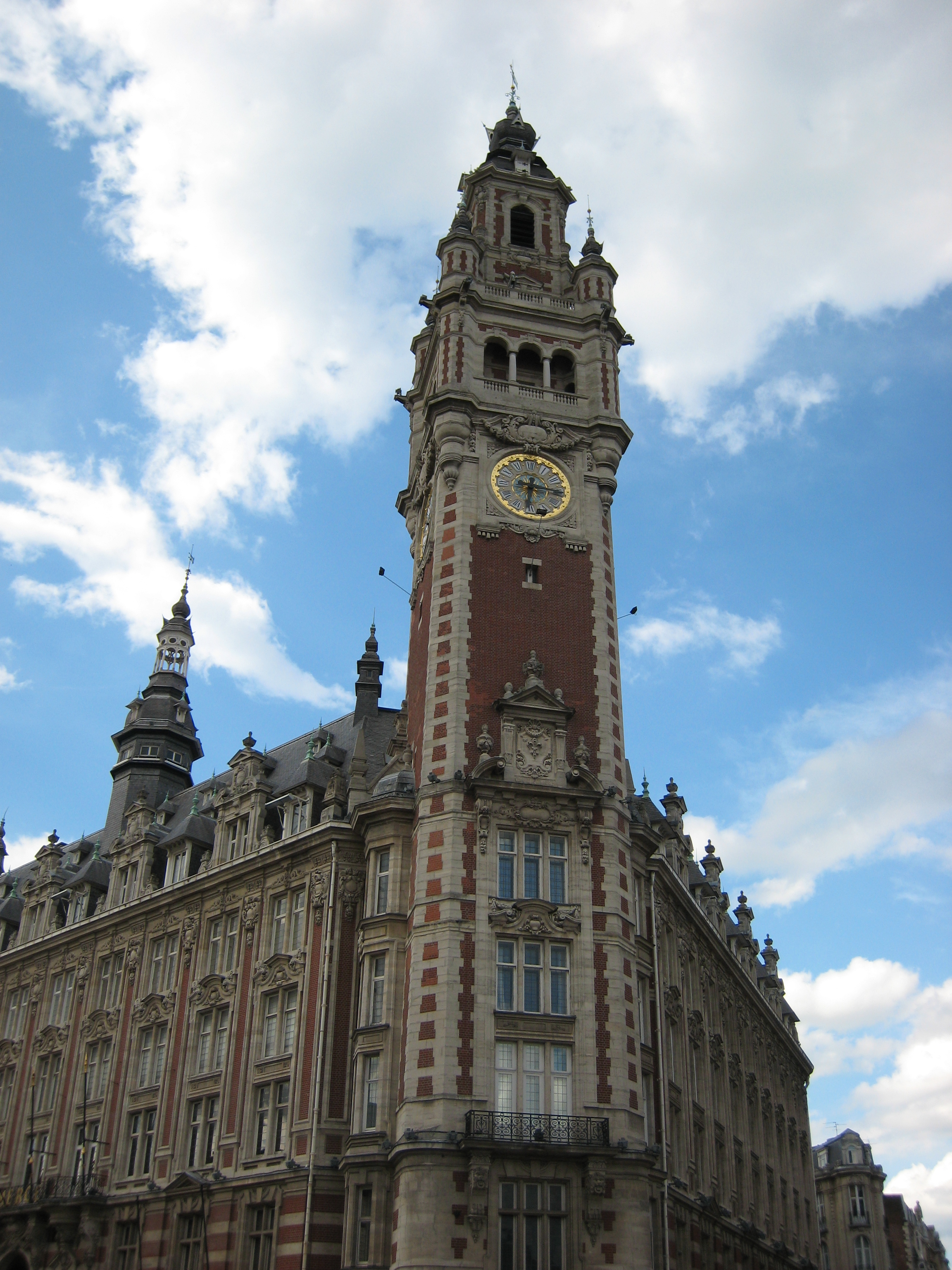 Lille 's chamber of commerce